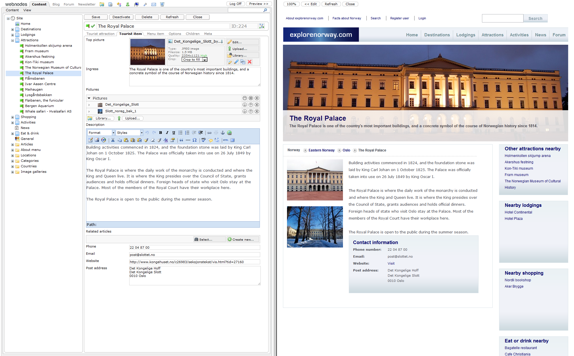 Example of user interface presented by editors of the Webnodes CMS